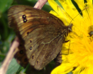 Common alpine, Erebia epipsodea, on dandelion, Santa Fe Ski Basin, Santa Fe National Forest, near Santa Fe, NM.